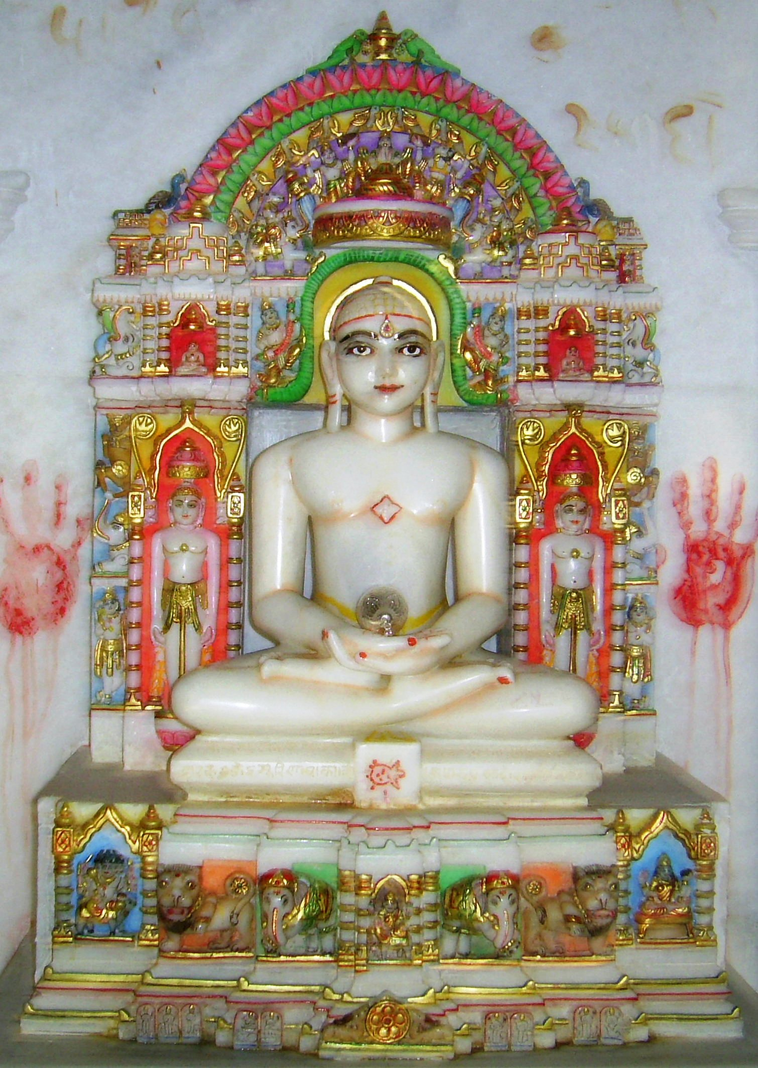 The Principle deity of Sri Munisuvrat-Nemi-Parsva Jinalaya, Santhu, Bagra (Marwar), Jalore, Rajasthan, India photographed with the helf of my Sony Digital camera in Oct 2005.